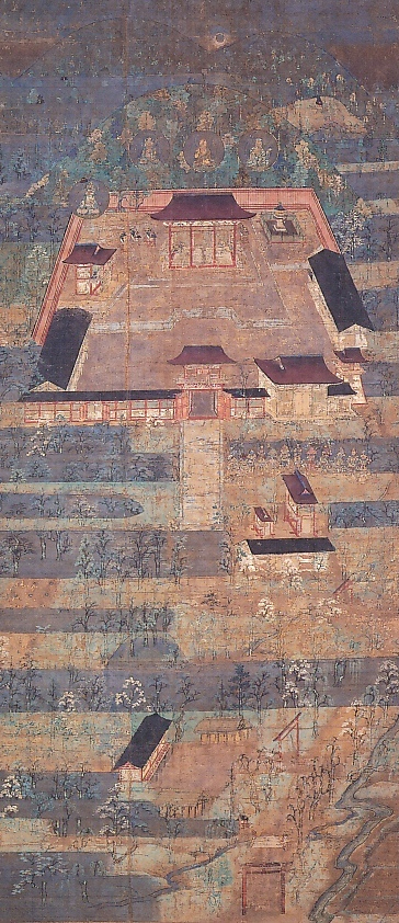 So-called Kakinomoto Miya Mandala, Yamato Bunkakan, Nara, Nara, Japan